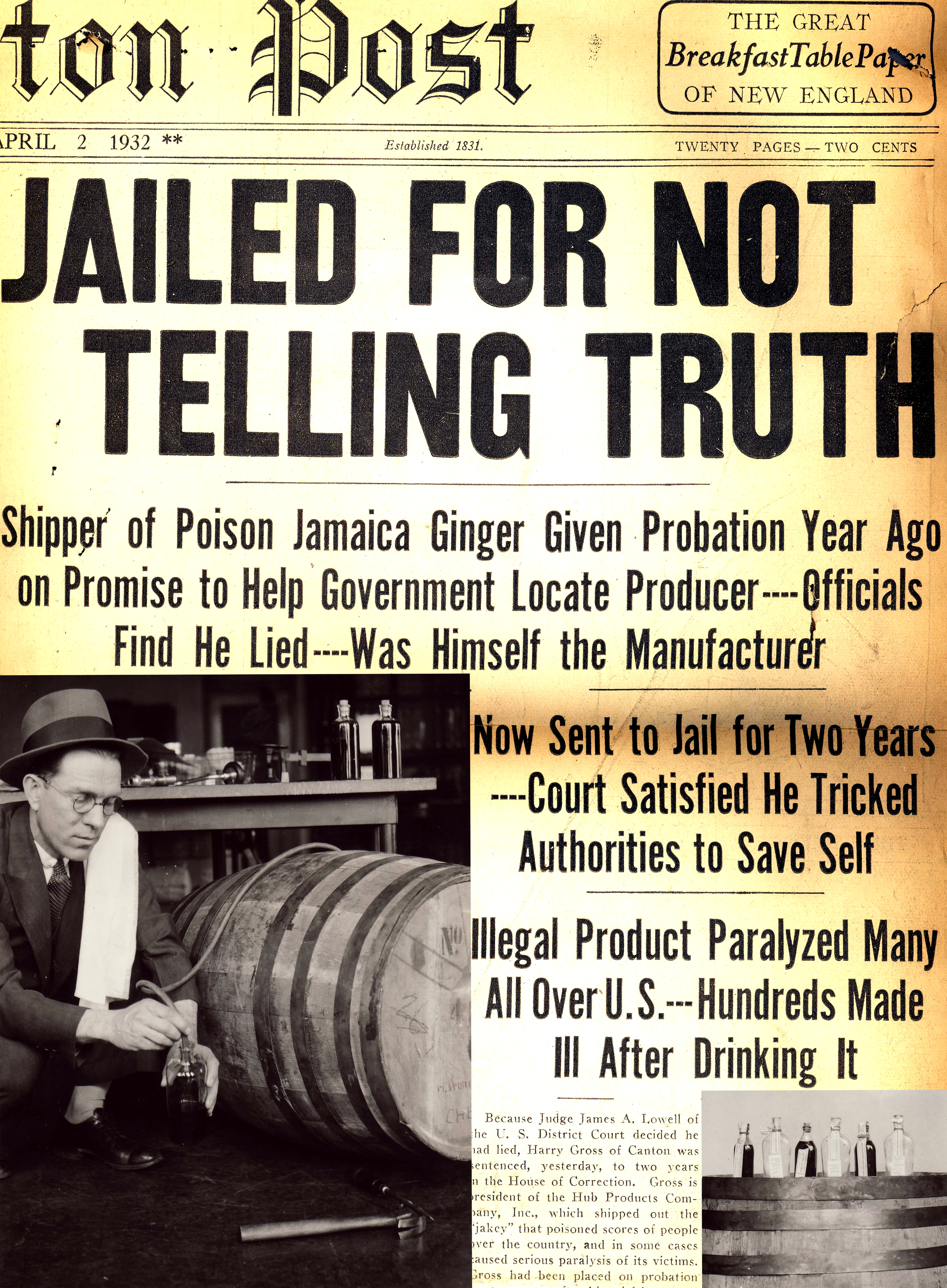 In 1930 Hub Products of Boston marketed an extract of Jamaica ginger adulterated with a plasticizer. A popular underclass alternative to alcohol during Prohibition, “ginger jake” was responsible for a crippling, lower neurological disorder that affected thousands. Shown here is the tainted product in wholesale (barrels) and retail containers, sampled by an investigator. For more information about FDA history visit